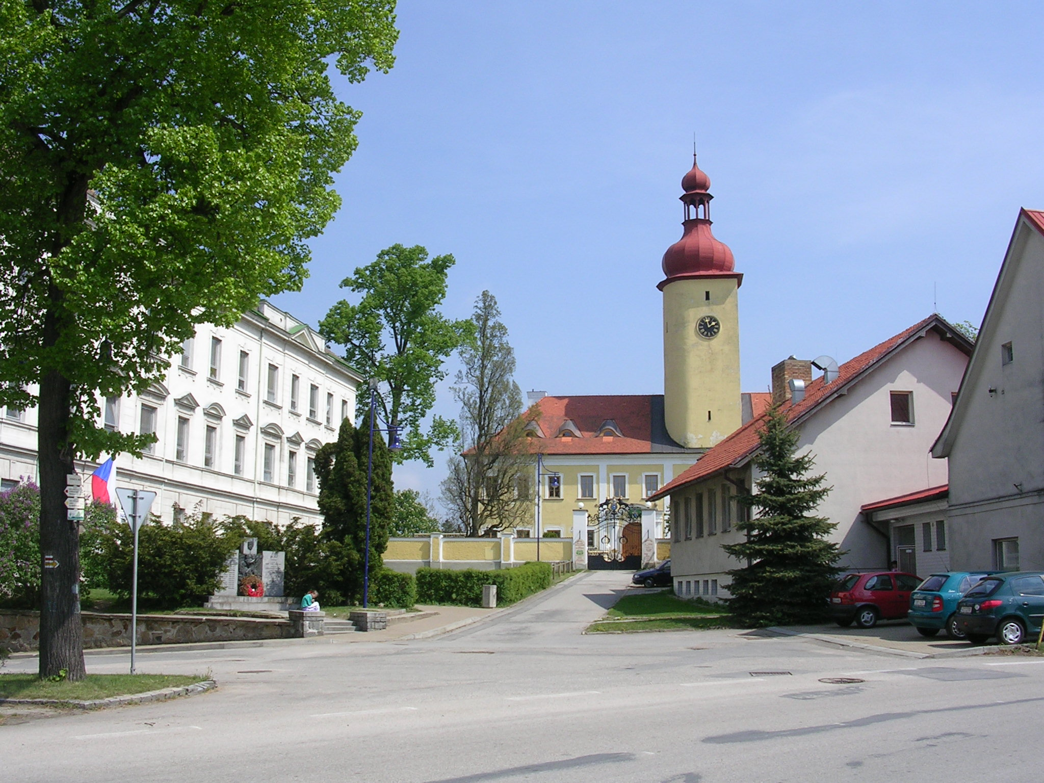 Stráž nad Nežárkou, South Bohemian Region, the Czech Republic.